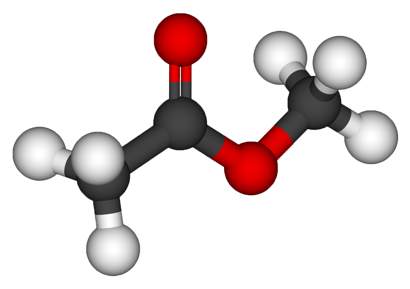 Methyl acetate